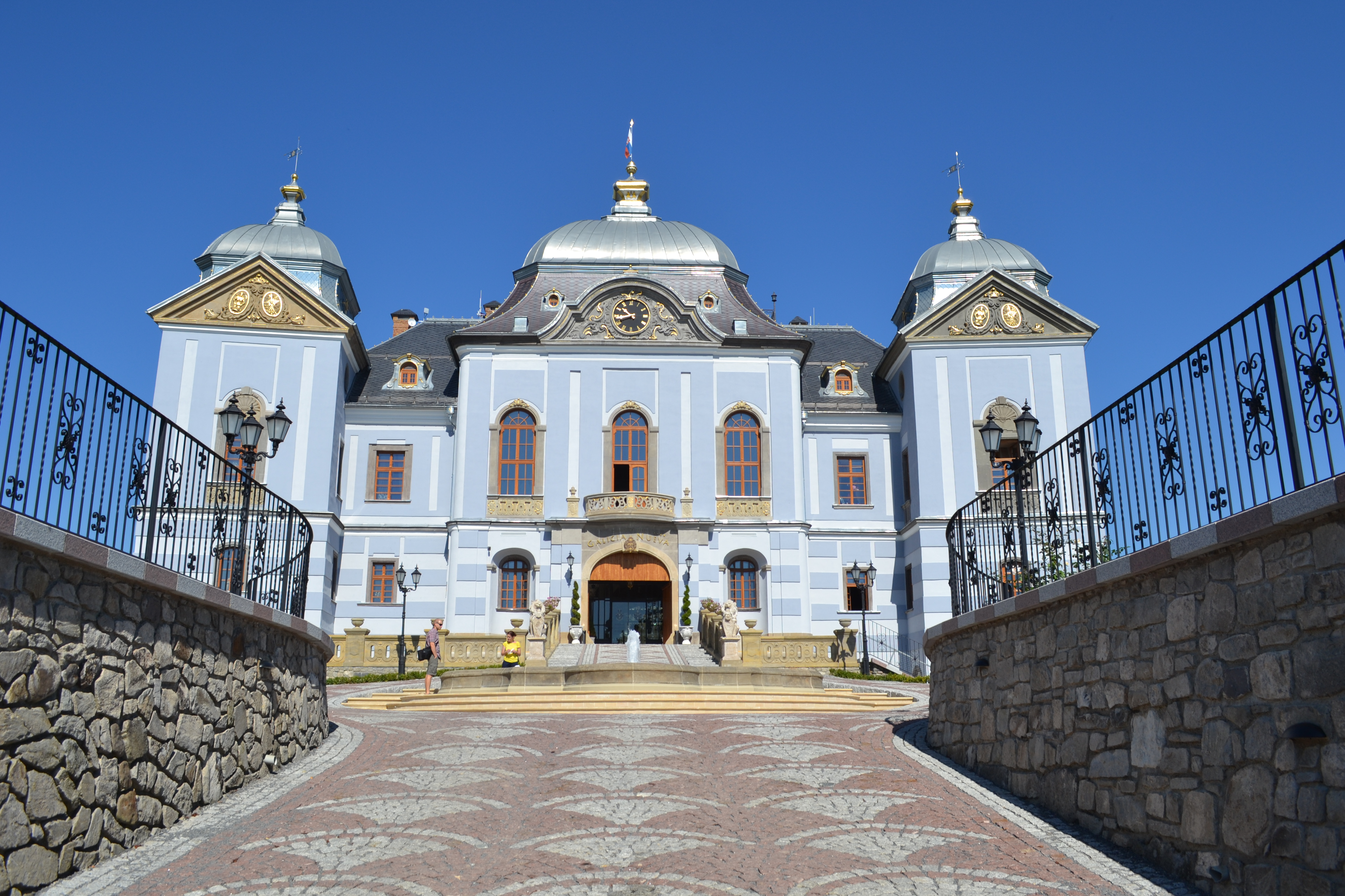 Four hundred year old Renaissance-Baroque castle in Halič built by the noble family Forgáč